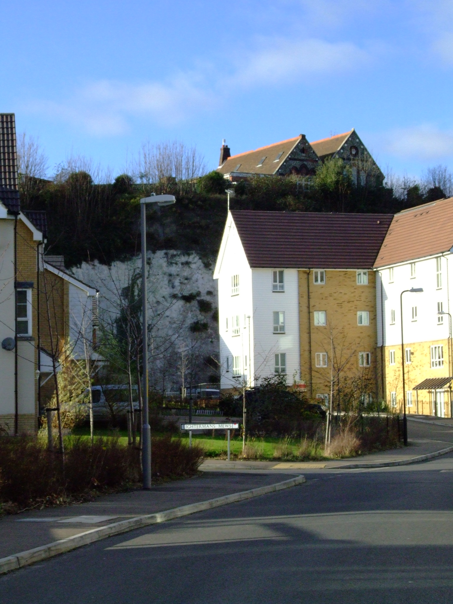 Northfleet merges with Gravesend in Kent. It is on the River Thames estuary. The shore has been excated for chalk, and heavy industry used the recovered land.. Rosherville Road passes from one chalk pit to the next, while the London Road (later caller Overcliffe) perches on the residual chalk. Recent housing development in one pit. - OpenStreetMap(Info)